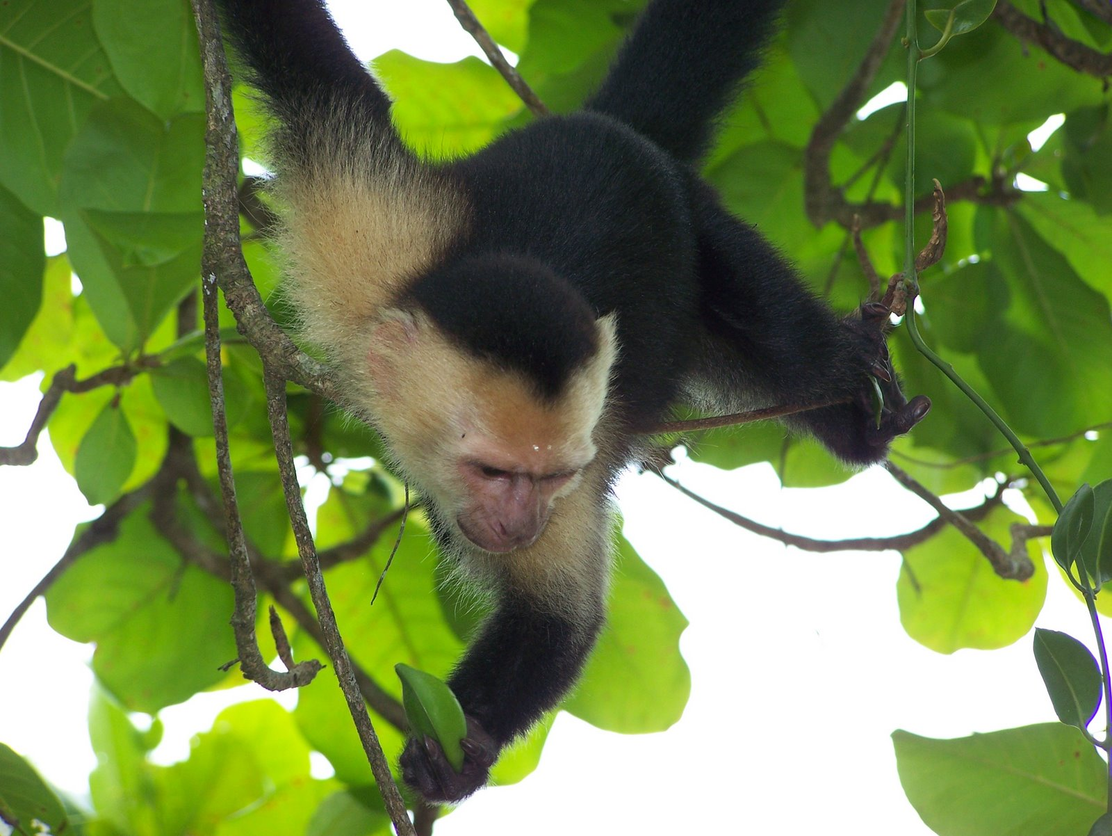 White-faced capuchin monkey in Manuel Antonio National Park in Costa Rica